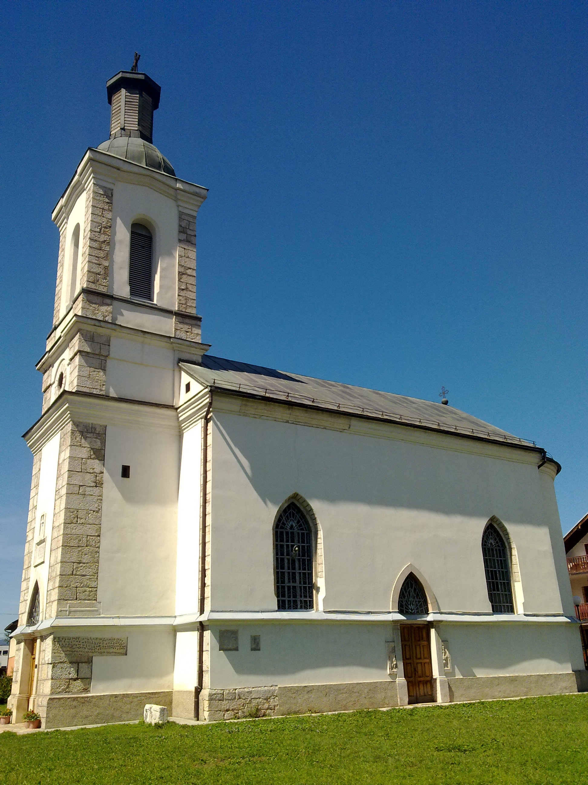 Church of Holy Trinity, Rogatica, founded in 1886